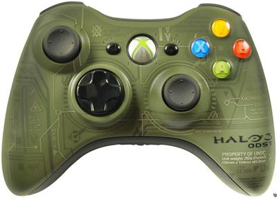 Xbox 360 Halo: ODST Controller